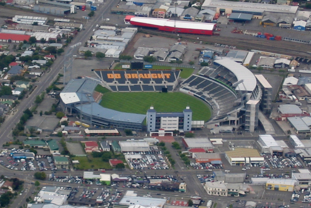 Aerial view of Jade Stadium in Christchurch, New Zealand